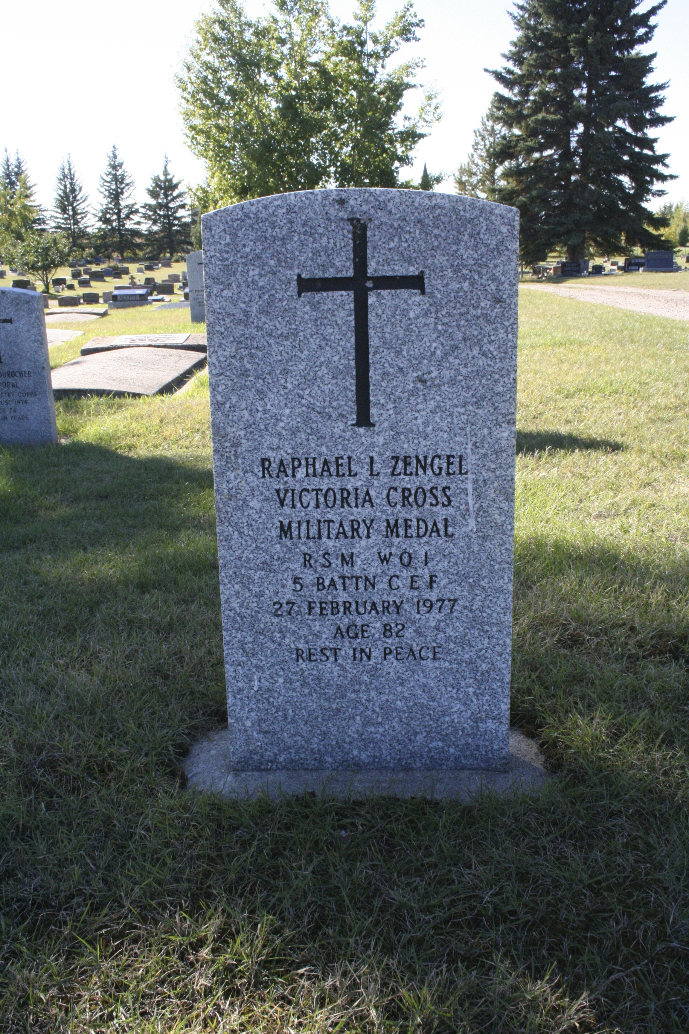 Picture of Raphael Zengel's grave.